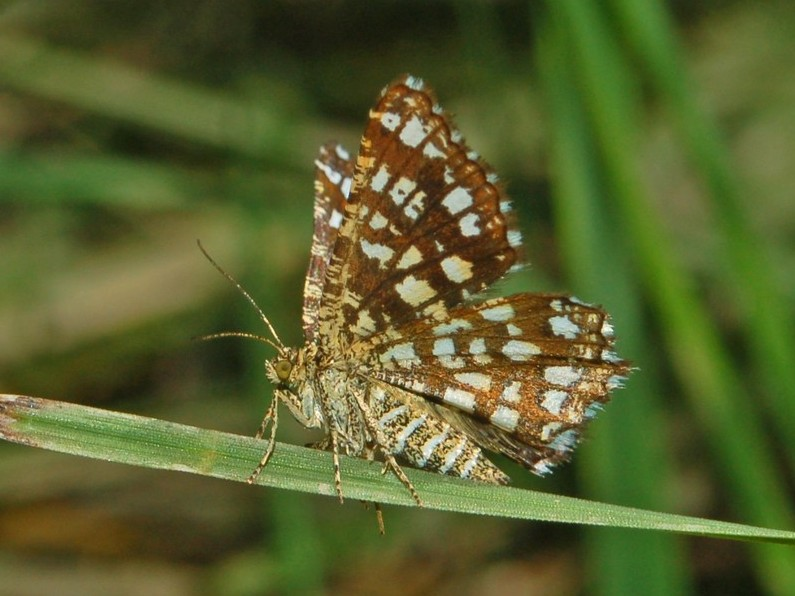 Chiasmia clathrata. Antola, Genova, Italy